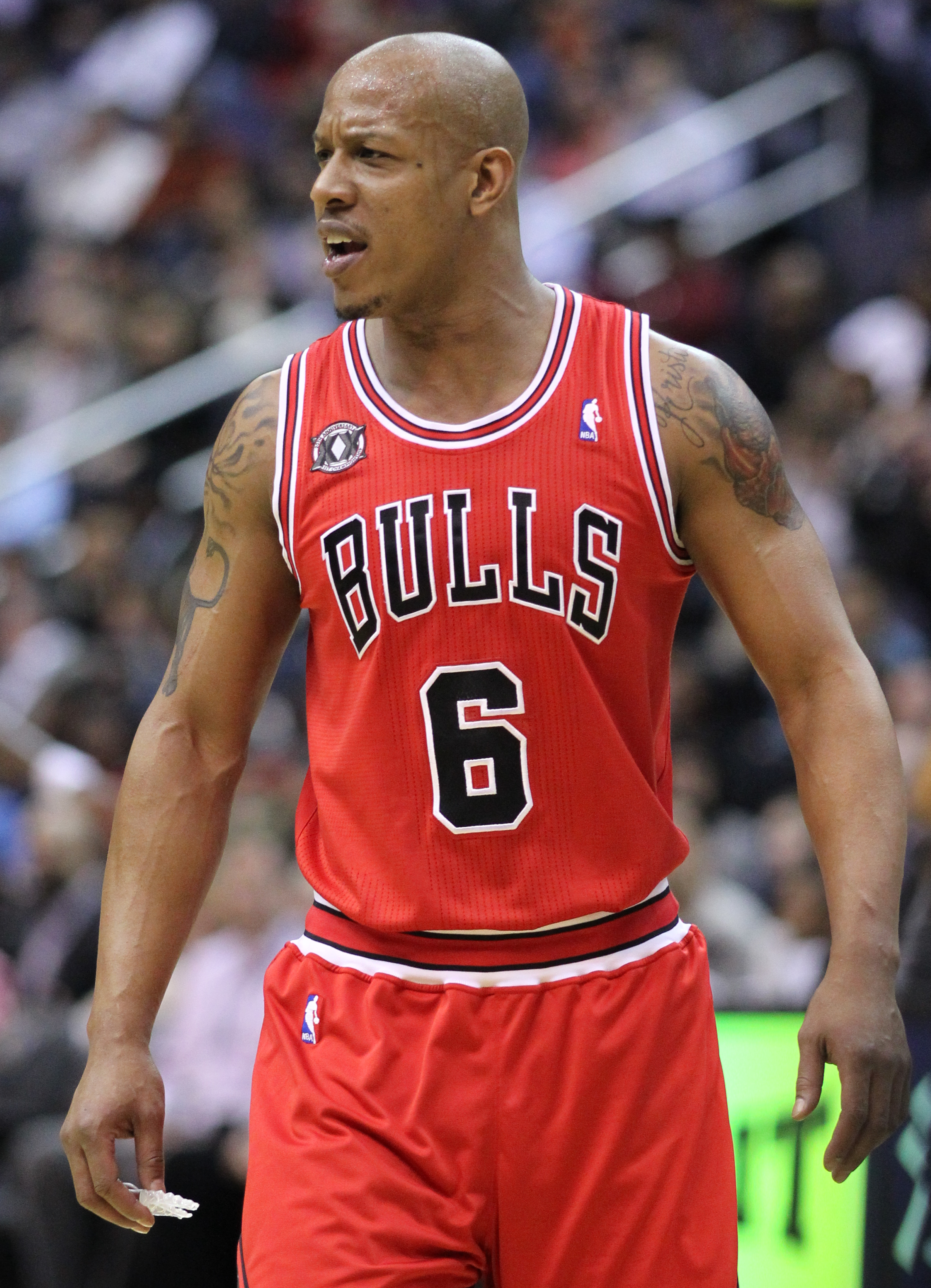 Wizards v/s Bulls 02/28/11